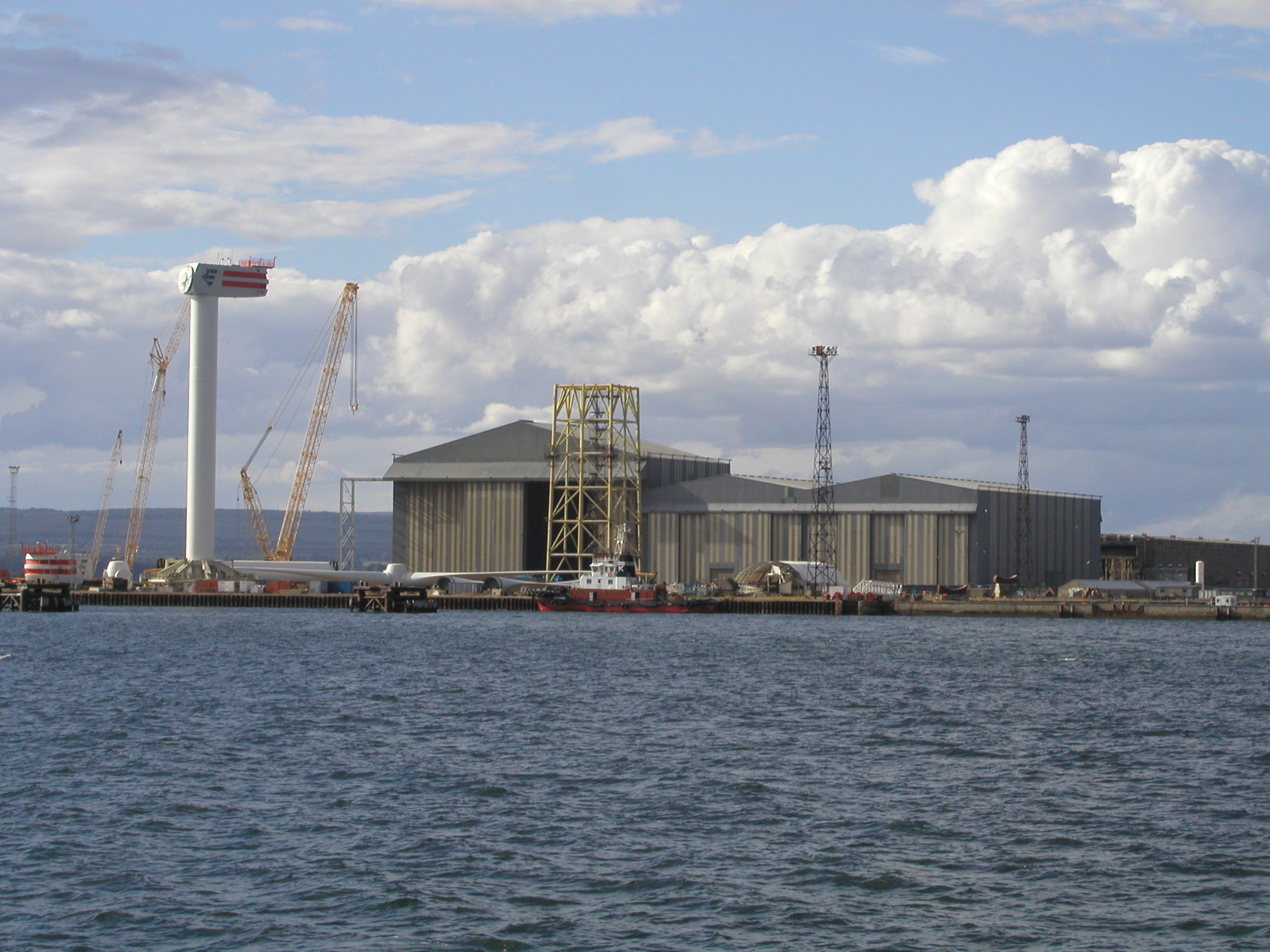 5MW turbine under construction for Talisman Energy at Nigg, Cromarty.